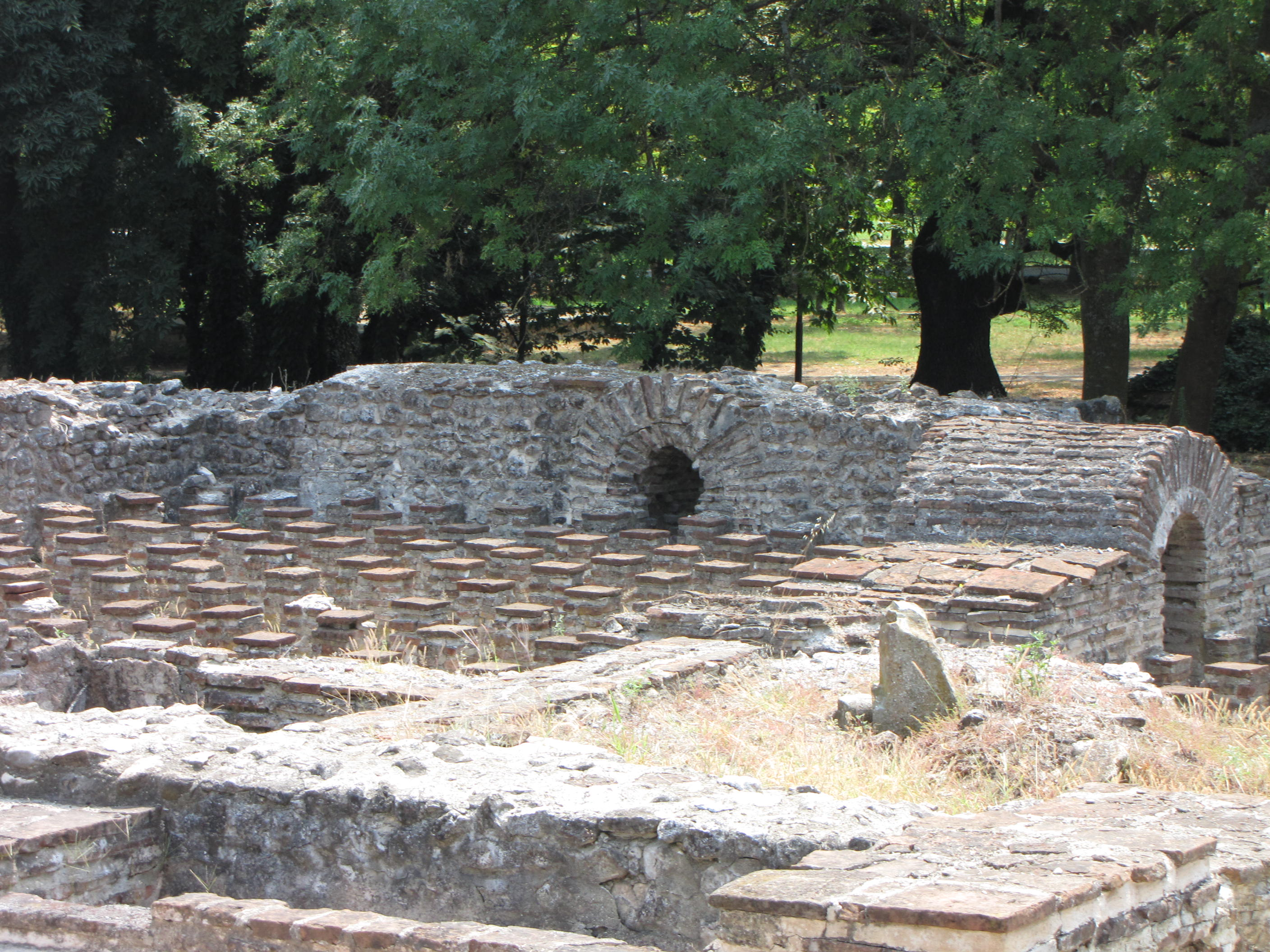 The big Thermal Bath